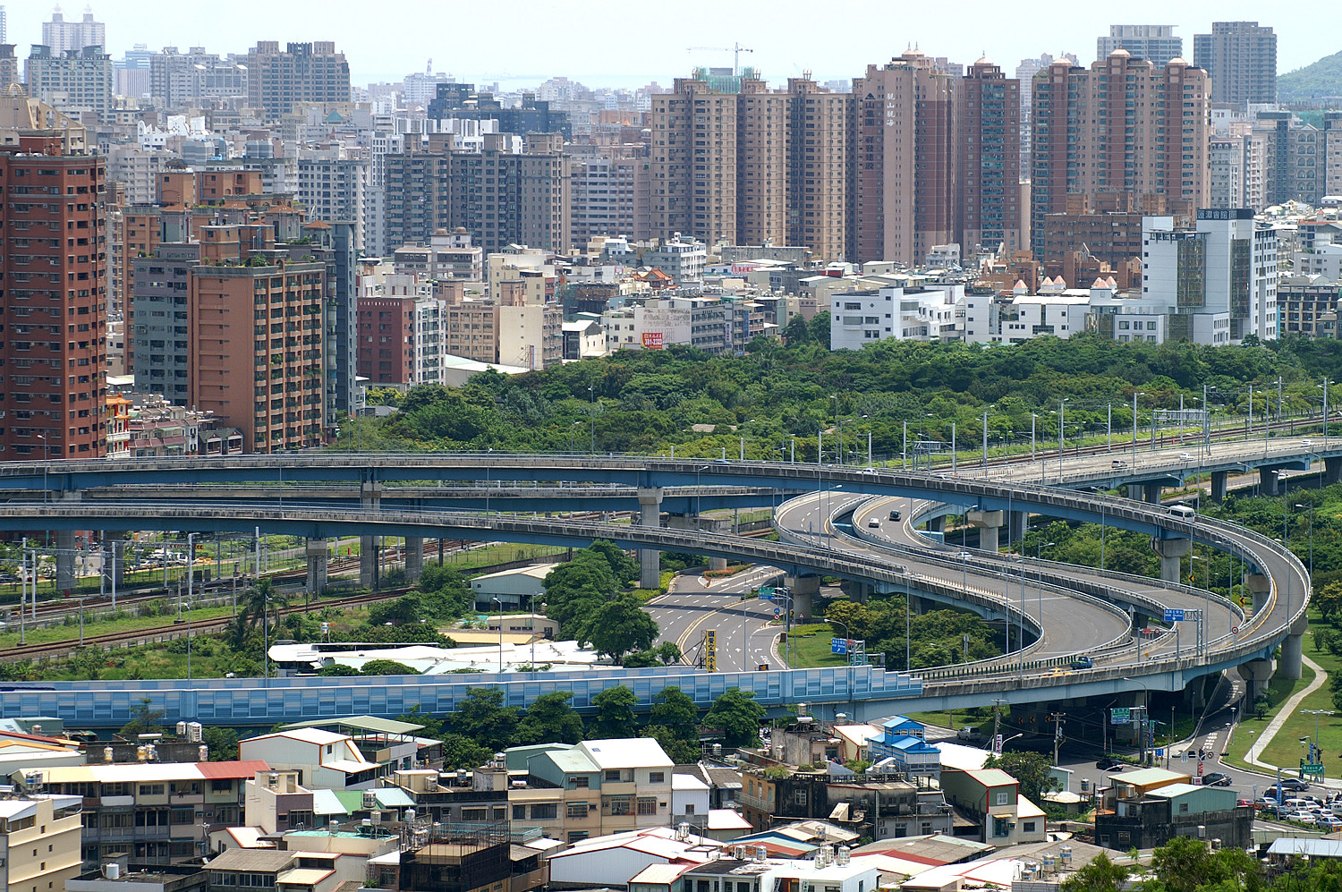 中文（台灣）: National Highway No.10, Taiwan 台灣國道10號（左營端）